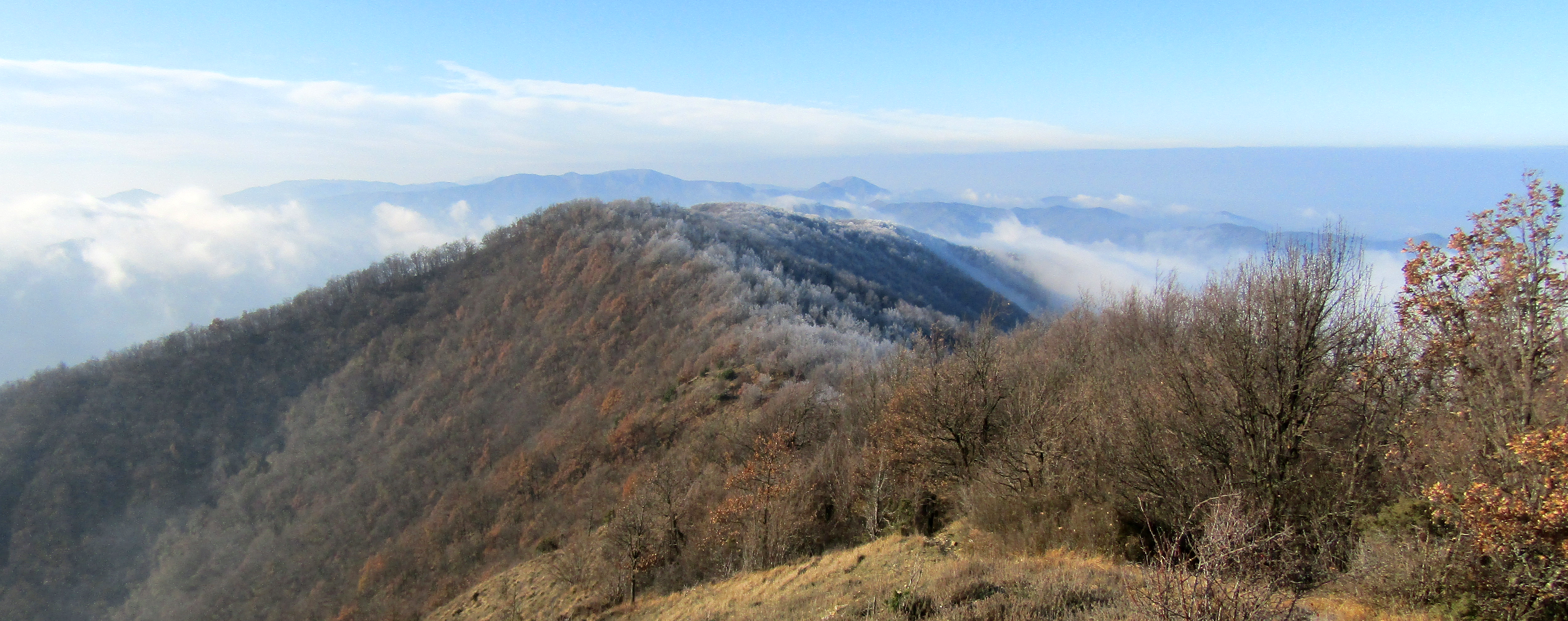 Bric delle Camere (Ligurian Apennine, Italy)